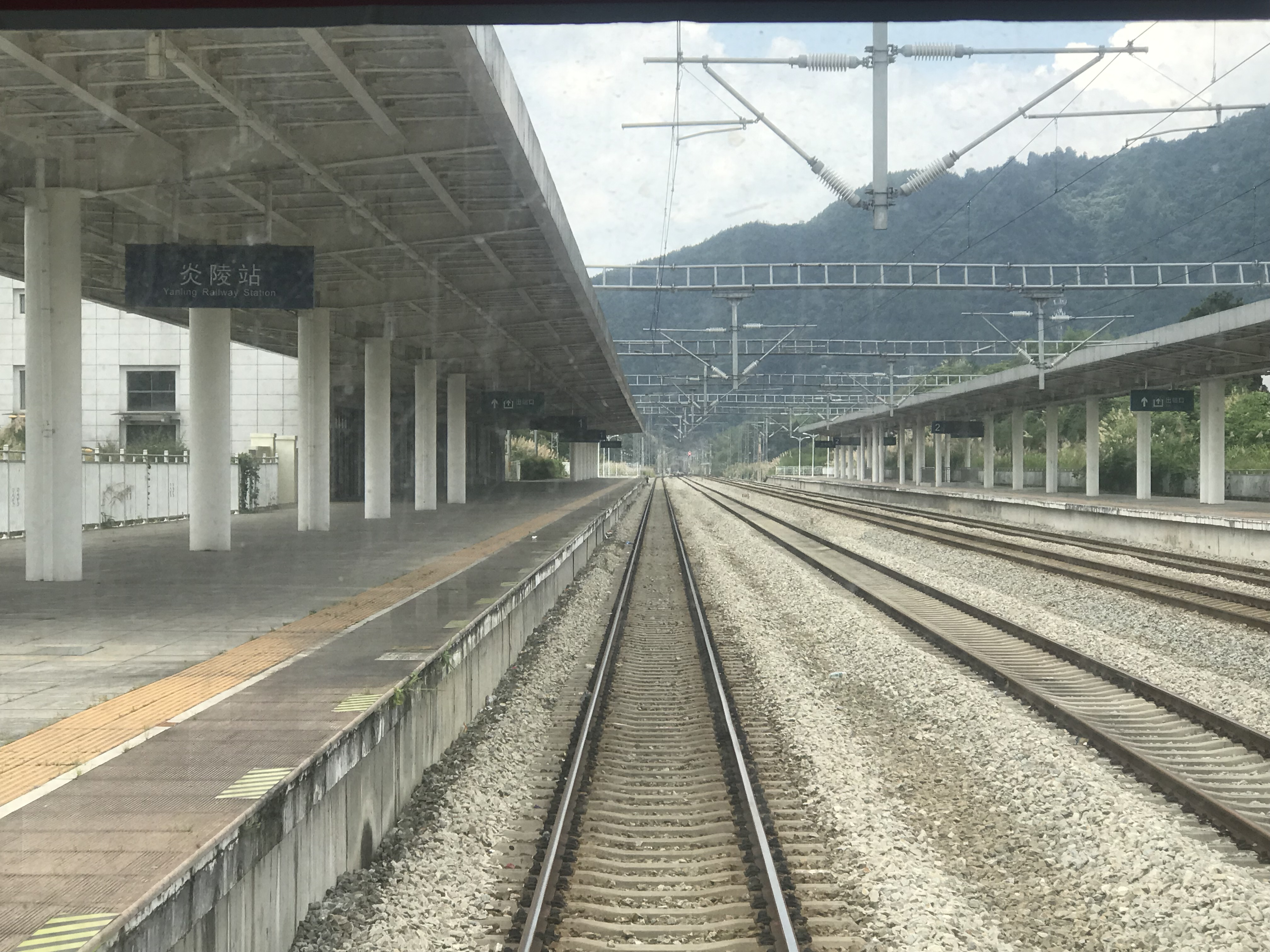 And not to be confused with Yanglin